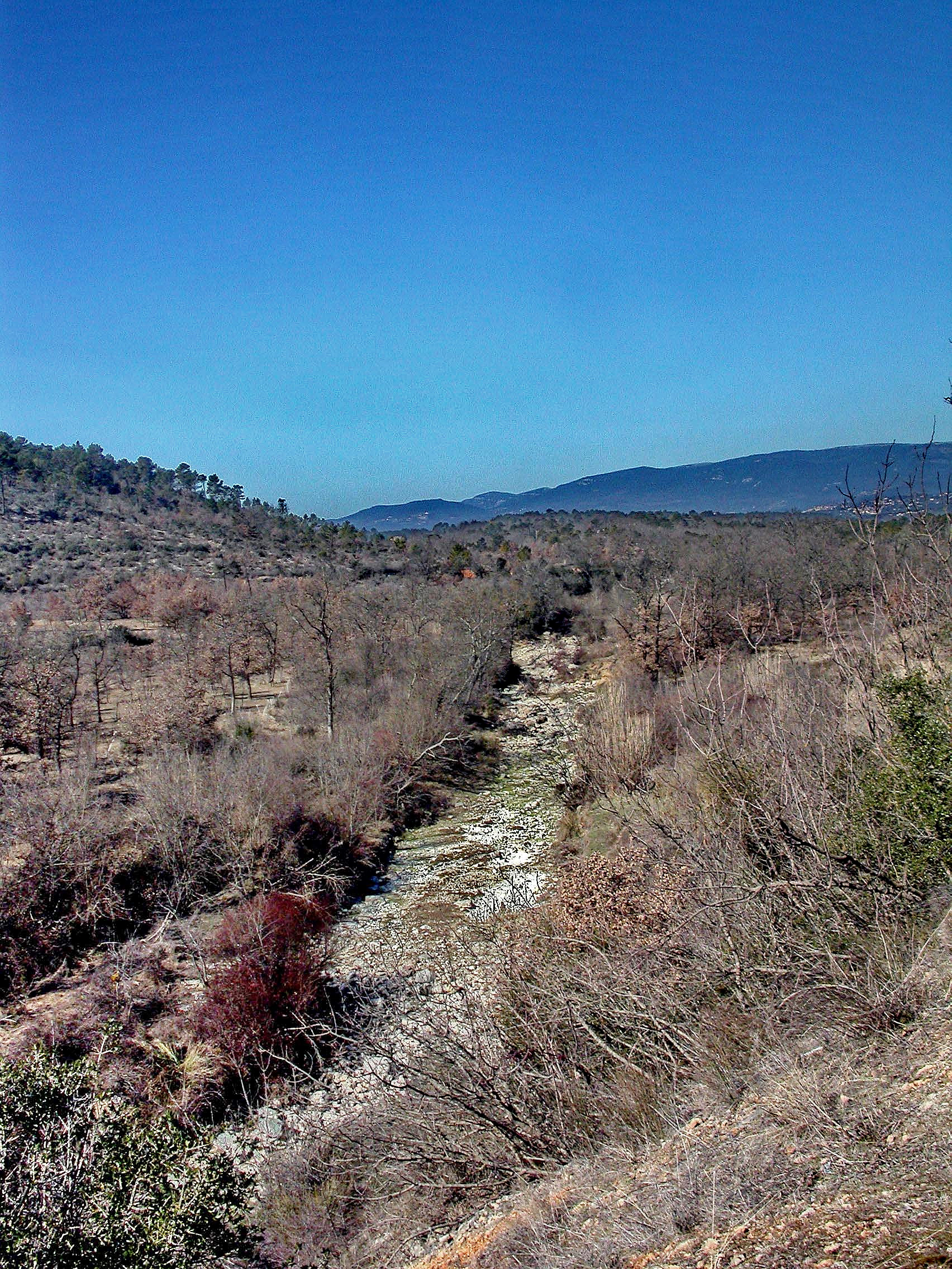 Biançon river also called 'Riou Blanc' or 'Riou de Seillans'